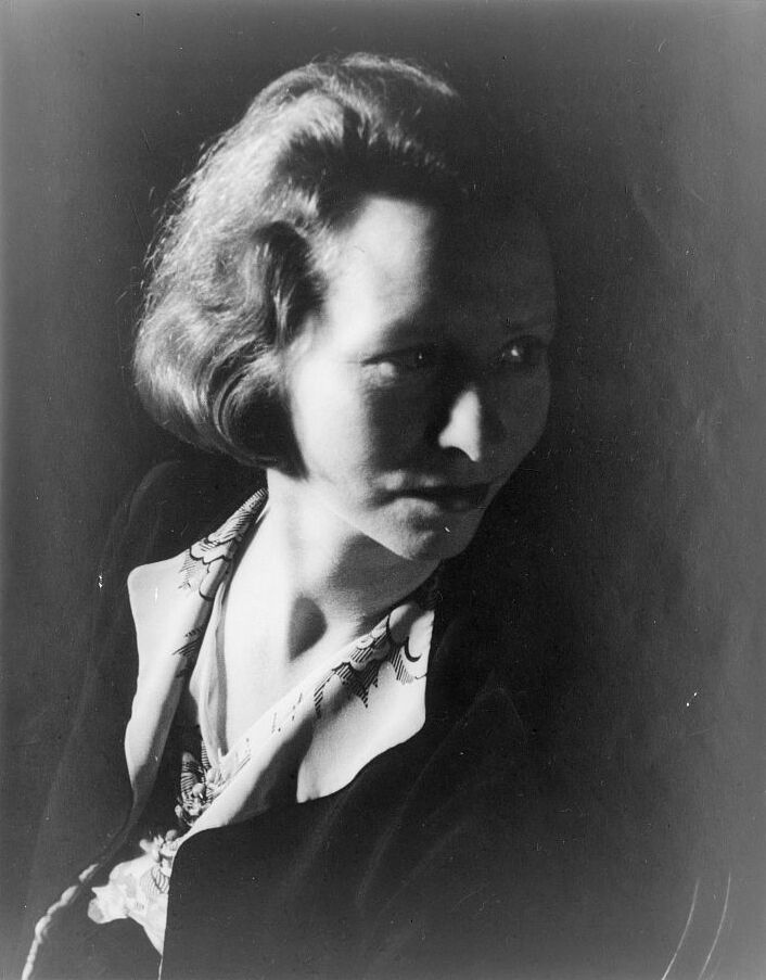 Edna St. Vincent Millay (1892-1950)Portrait of Edna St. Vincent Millay (1933-01-14)